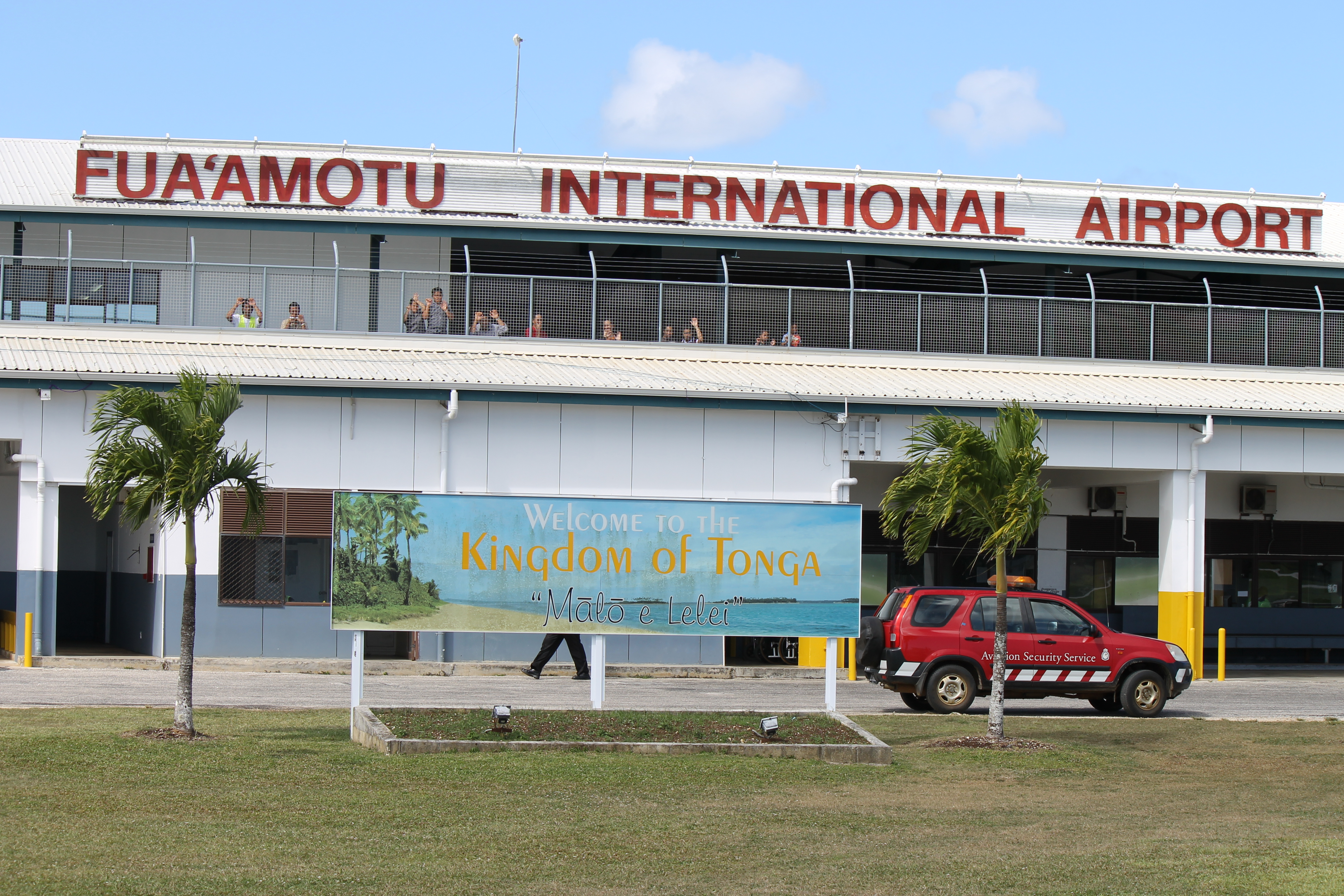 Fua'amotu International Airport